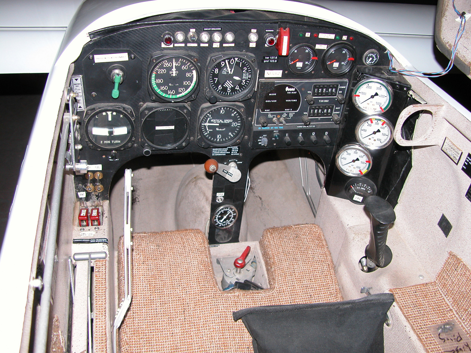 Cockpit of the XCOR Aerospace EZ-Rocket